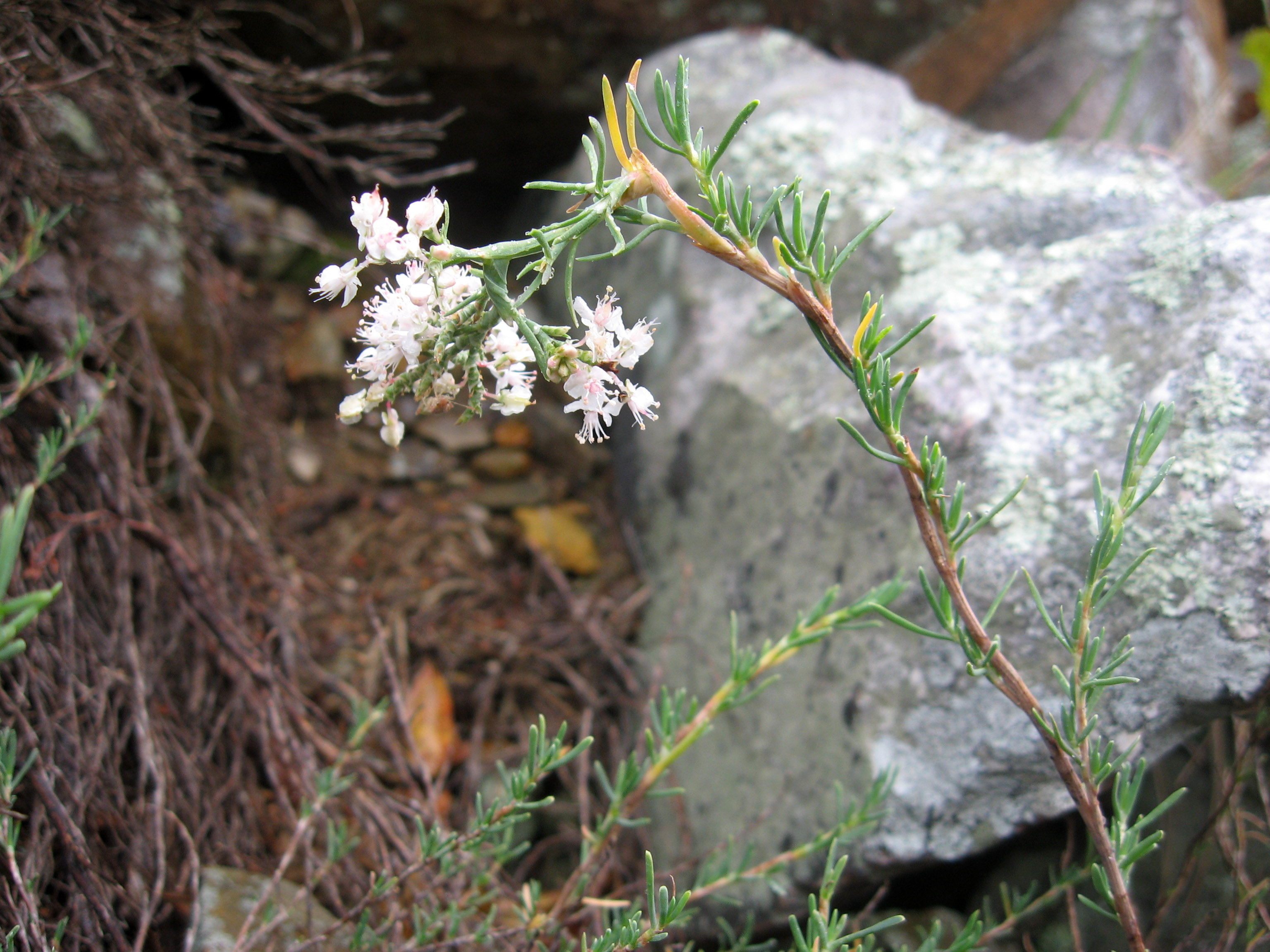 Polygonum americana, Ouachita Mountains, Arkansas.